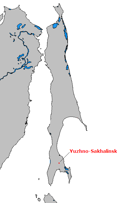 Yuzhno-Sakhalinsk, Capital of Sakhalin (Island).